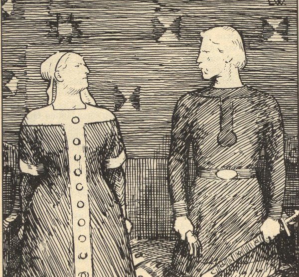 Sigrid the Haughty and Olaf Tryggvason. By Erik Werenskiold. Public domain in the United States because it was published before 1909. Immediate